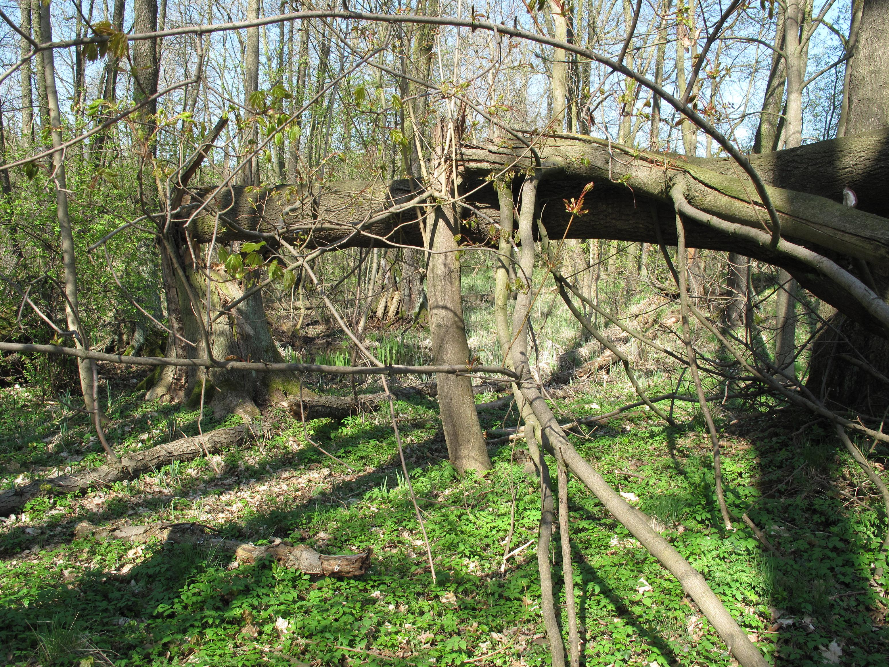 Carr at the Mühlenfließ (german for: millsbrook) in Stücken. Stücken is a part of Michendorf in the district Potsdam-Mittelmark, state Brandenburg, Germany. The village is situated in the Nuthe-Nieplitz Nature Park.